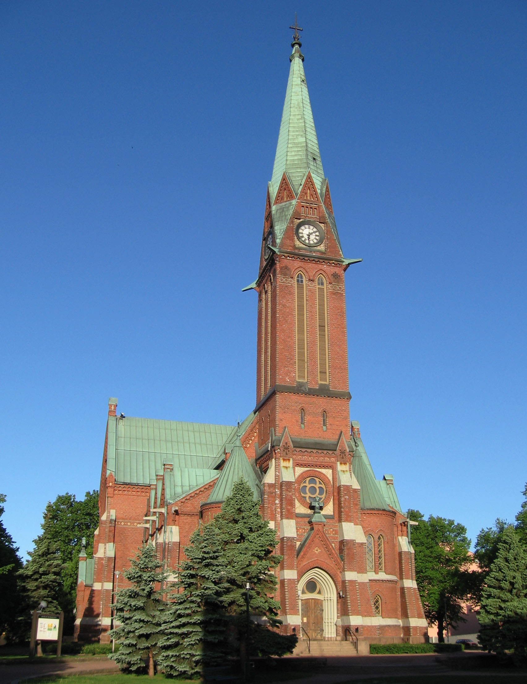 Kotka Church in Kotka, Finland.